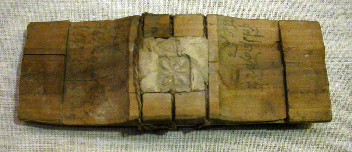 Wooden Tablet Inscribed with Kharosthi Characters, Eastern Han Dynasty to Jin Dynasty (2nd - 3rd century AD), Excavated at the site of the Niya Ruins in the Xinjiang Uigher Autonomous Region, Collection of the Xinjiang Museum. Taken it at the Exhibition of Ancient Chinese Invention Artifacts